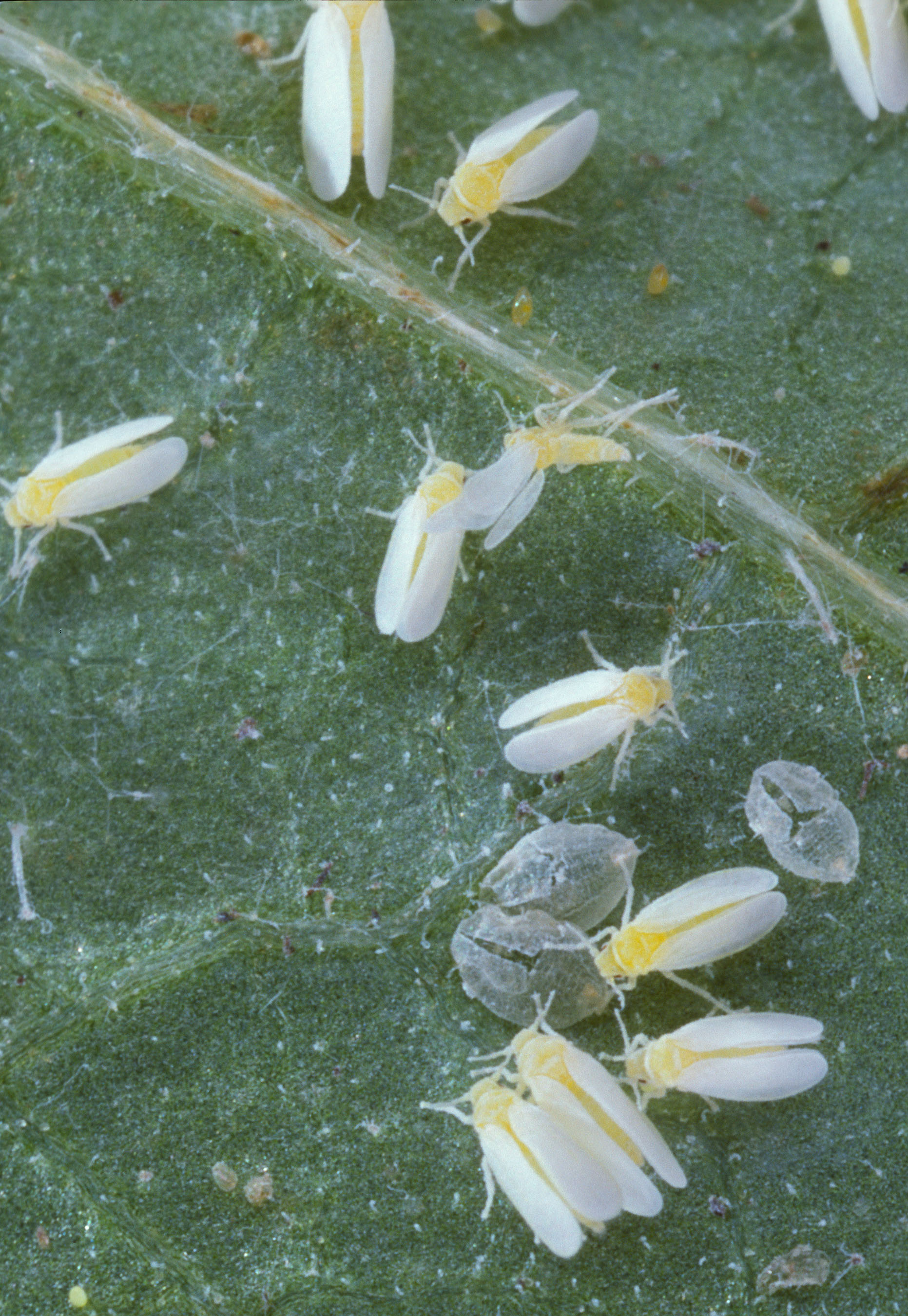 Adults and nimphs of Bemisia argentifolii (Rhynchota: Aleyrodidae)